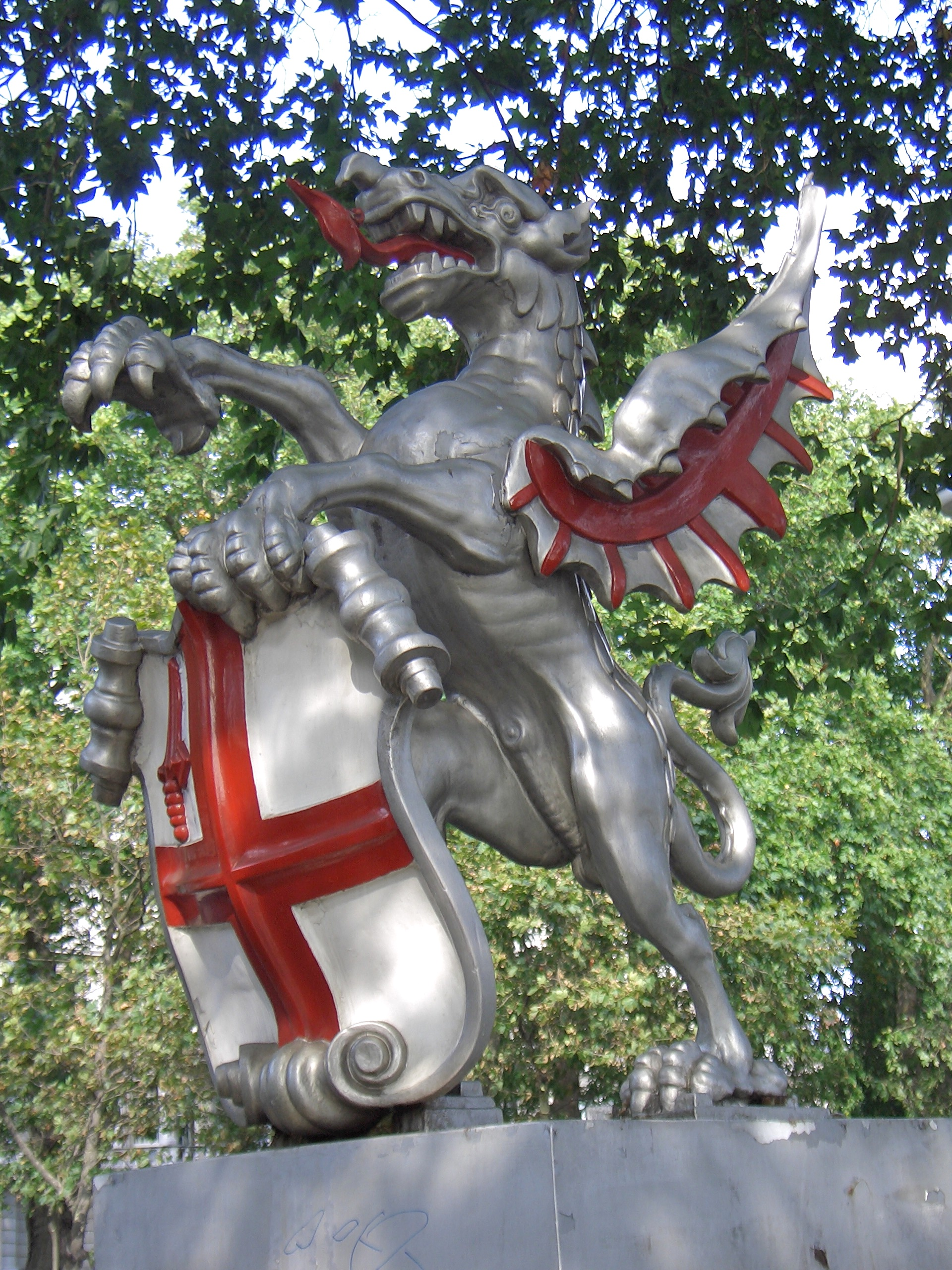 England Dragon statue, London Thames Embankment